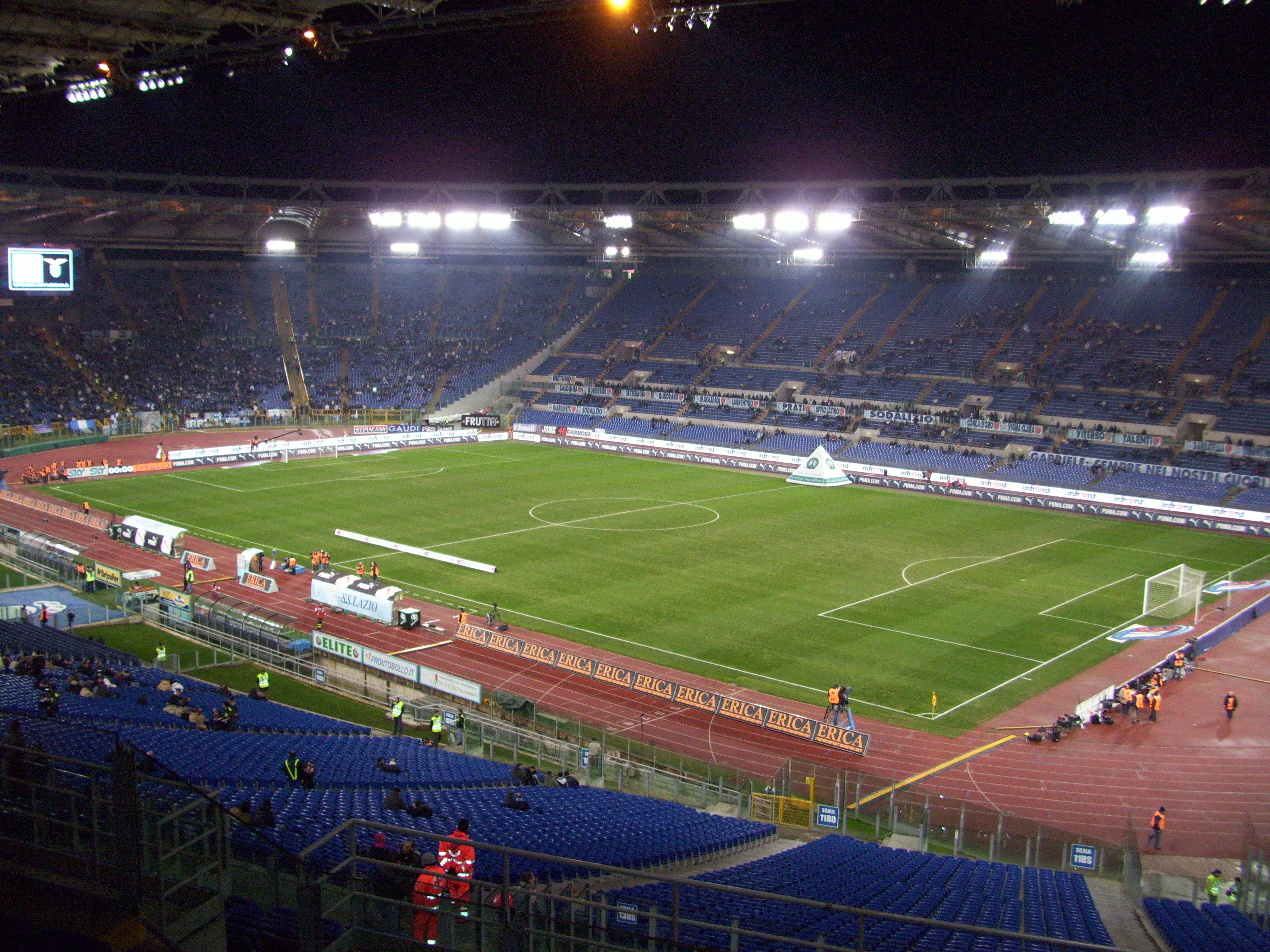 The Olimpic Stadium in Rome during Lazio - Milan